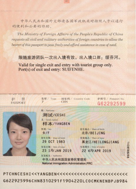 People's Republic of China Passport (97-2 version for Single Exit and Entry with Tourist Group Only)